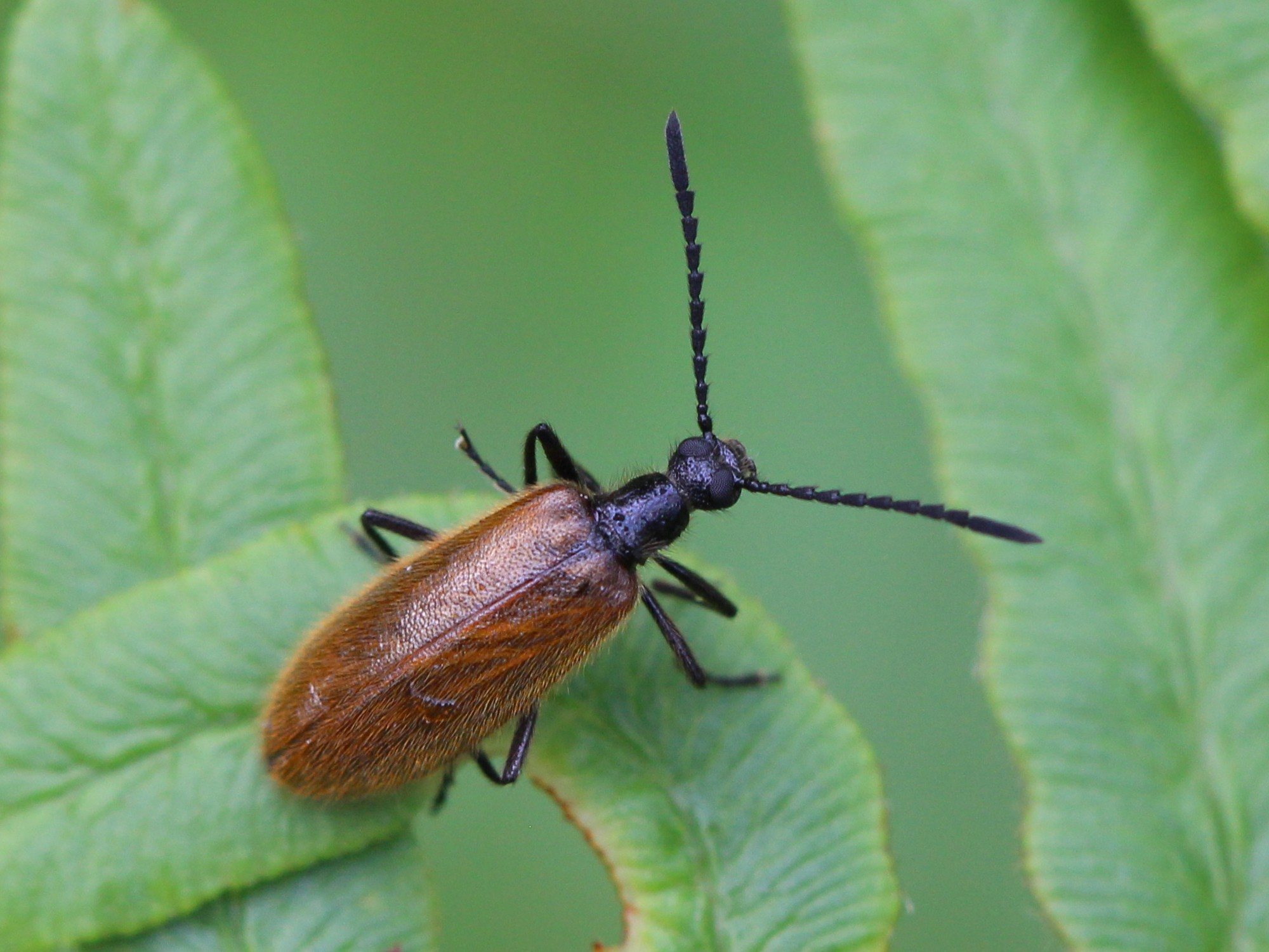 Lagria hirta beetle on eagle fern (Pteridium aquilinum) deformed leaf. Latvia, Inčekalns Municipality, Latvia.